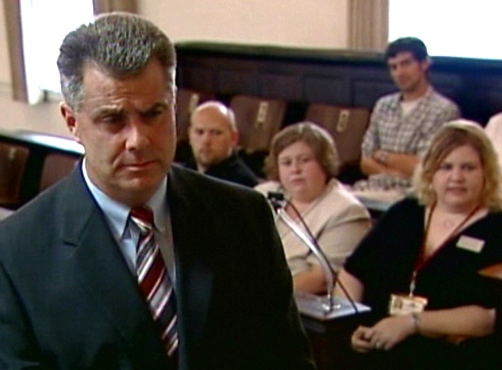 Attorney Mike Faulk asking questions during jury selection